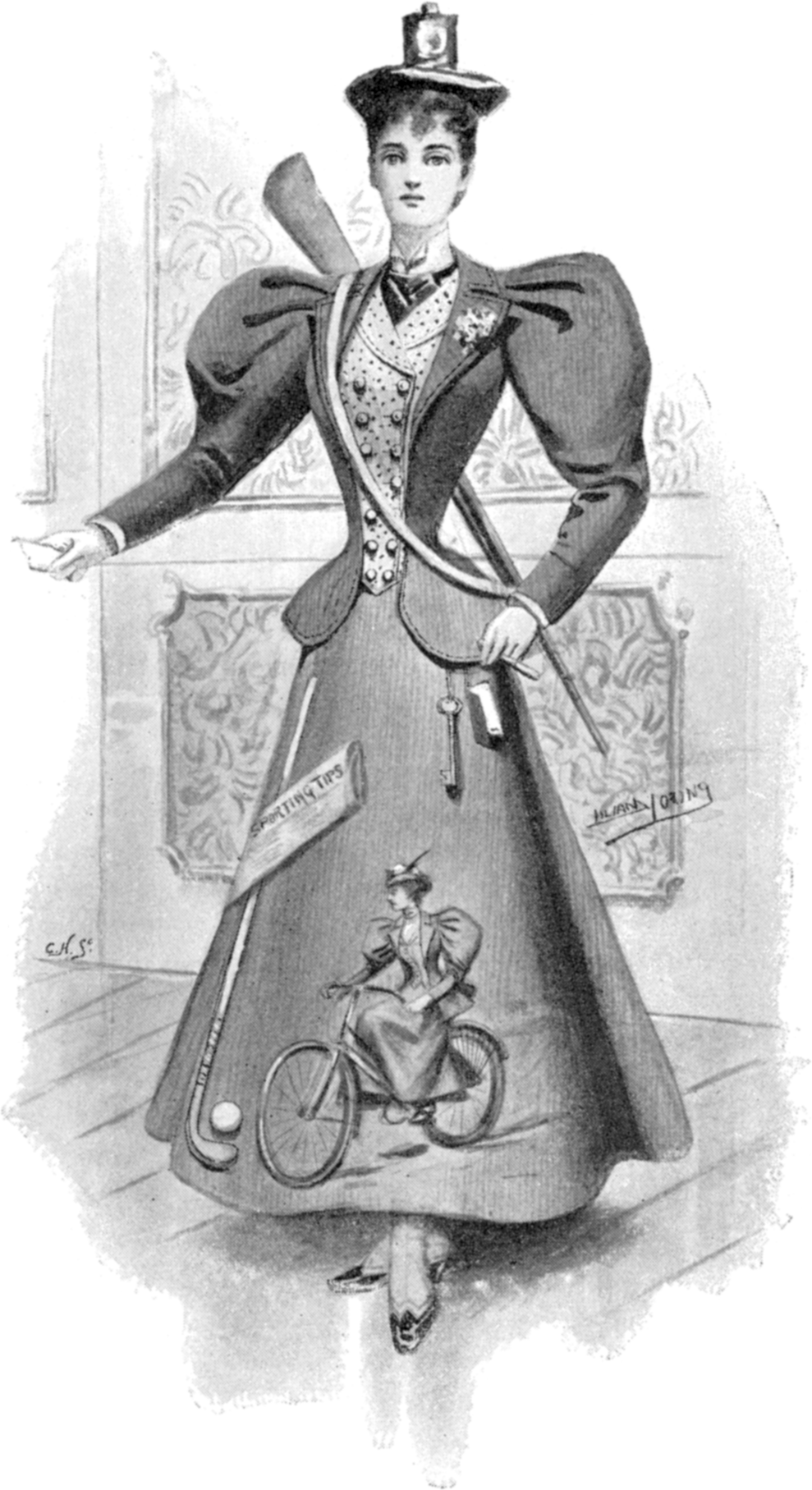 THE NEW WOMAN. She wears a cloth tailor-made gown, and her bicycle is pourtrayed in front of it, together with the Sporting Times and her golf club ; she carries her betting book and her latch-key at her side, her gun is slung across her shoulder, and her pretty Tam o'Shanter is surmounted by a bicycle lamp. She has spats to her patent leather shoes, and is armed at all points for conquest.